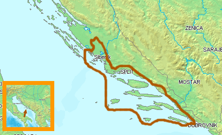 Prosek region in Souther Dalmatia